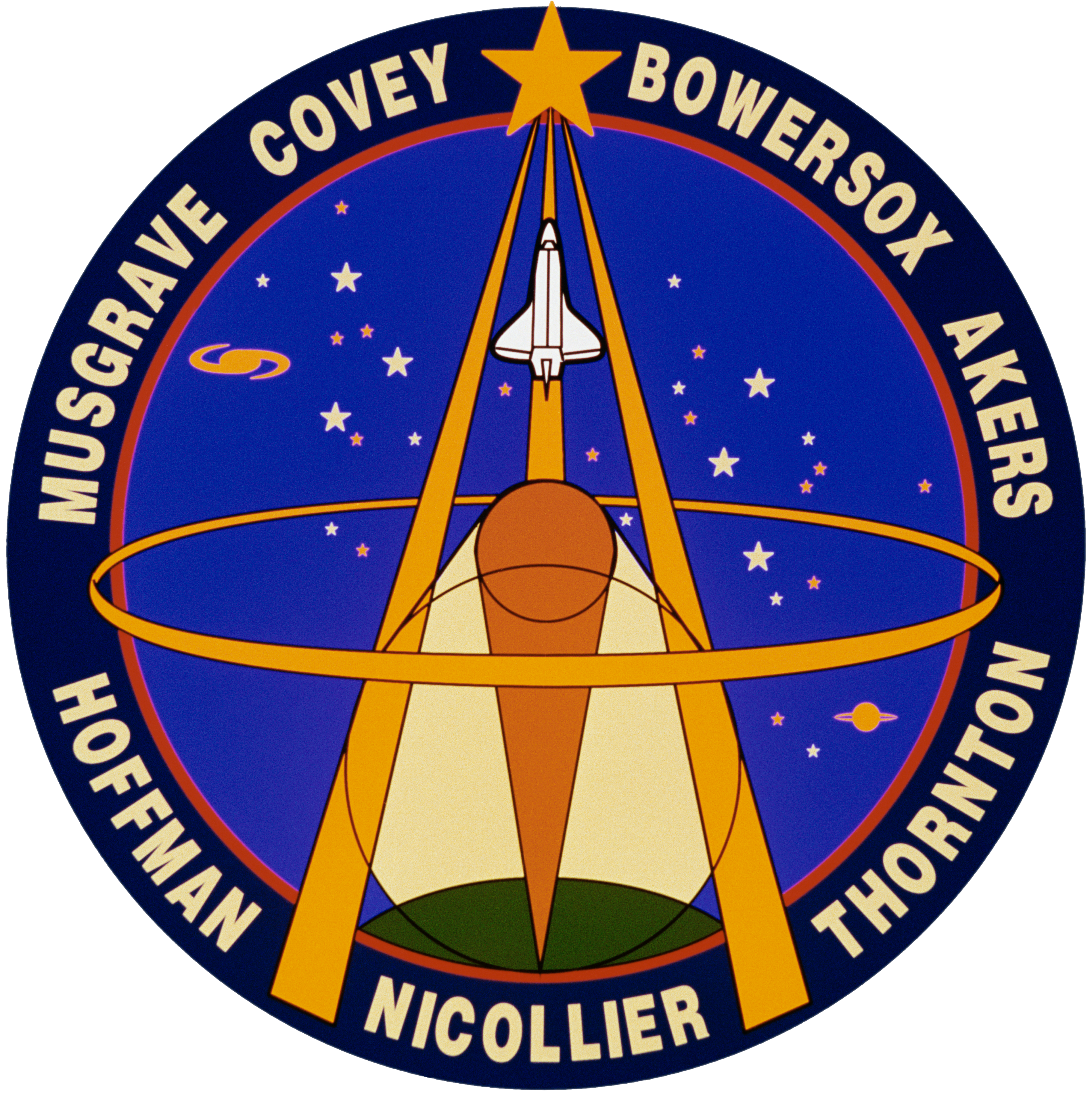 STS-61 Crew Insignia The STS-61 crew insignia depicts the astronaut symbol superimposed against the sky with the Earth underneath. Also seen are two circles representing the optical configuration of the Hubble Space Telescope (HST). The Space Shuttle Endeavour is also represented. The overall design of the emblem, with lines converging to a high point, is also a symbolic representation of the large-scale Earth-based effort to reach goals of knowledge and perfection.